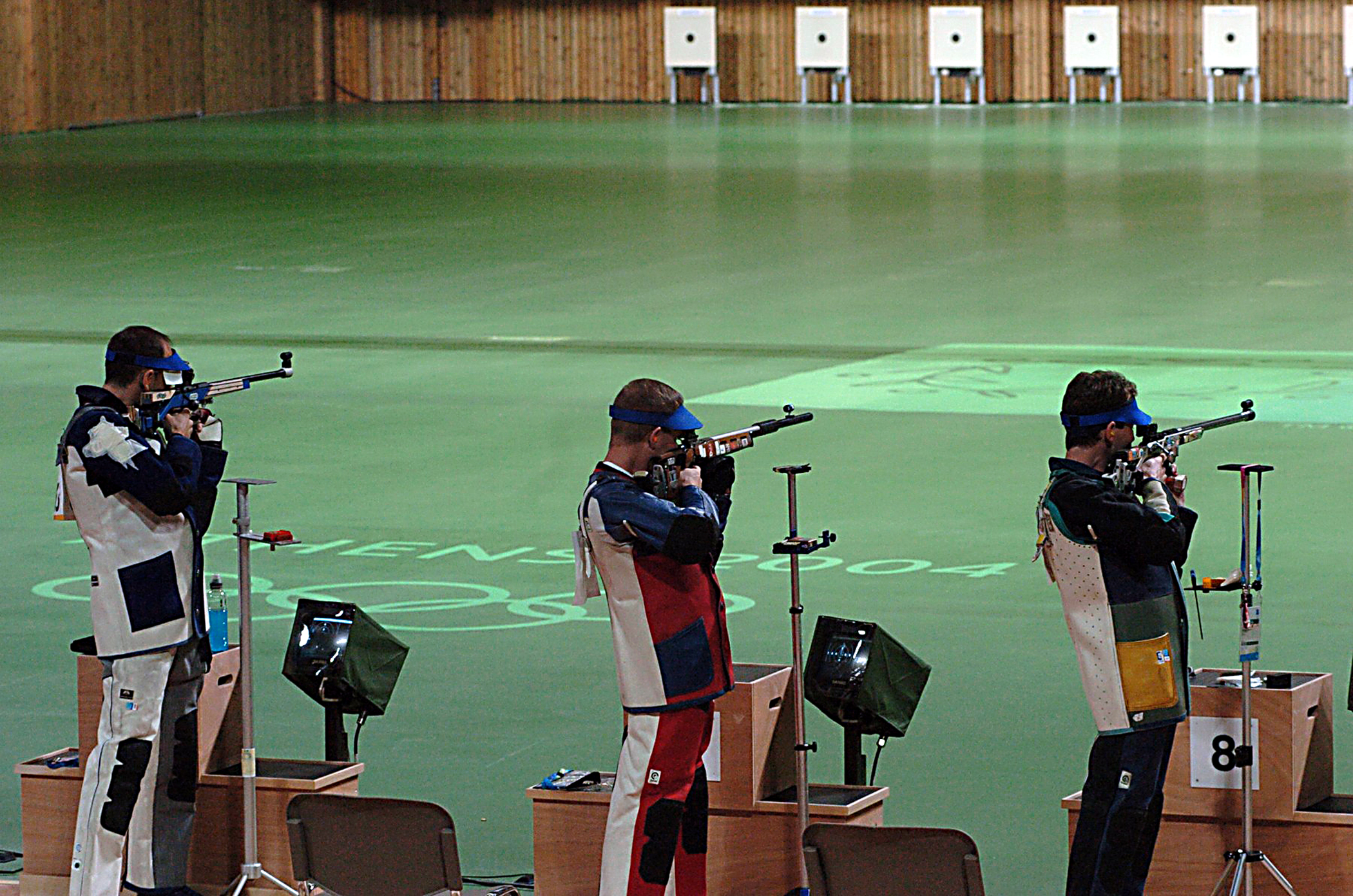 Men's 50-meter rifle competition during Summer Olympics in Athens 2004.